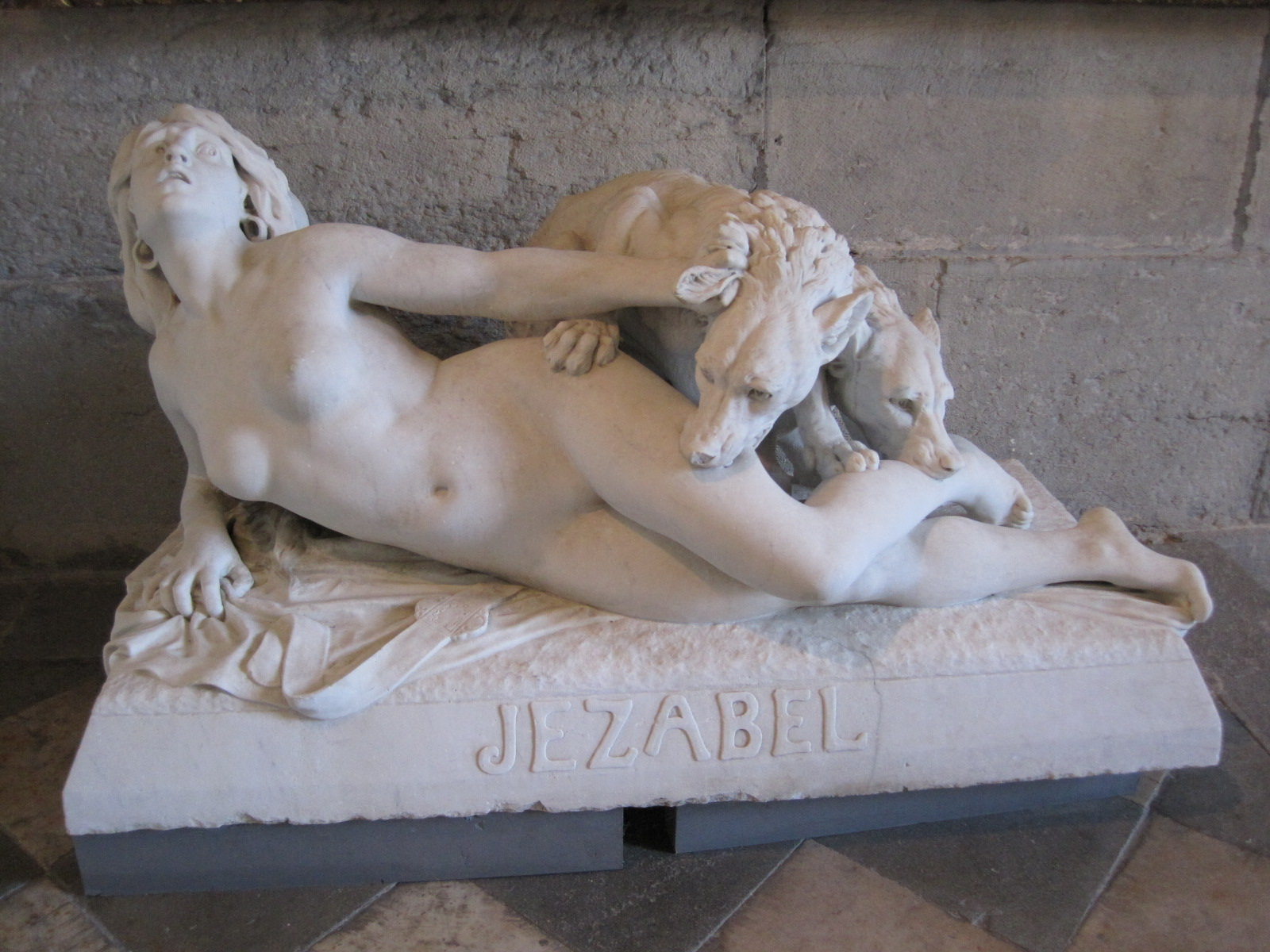 Jezebel being eaten by dogs after her defenestration.